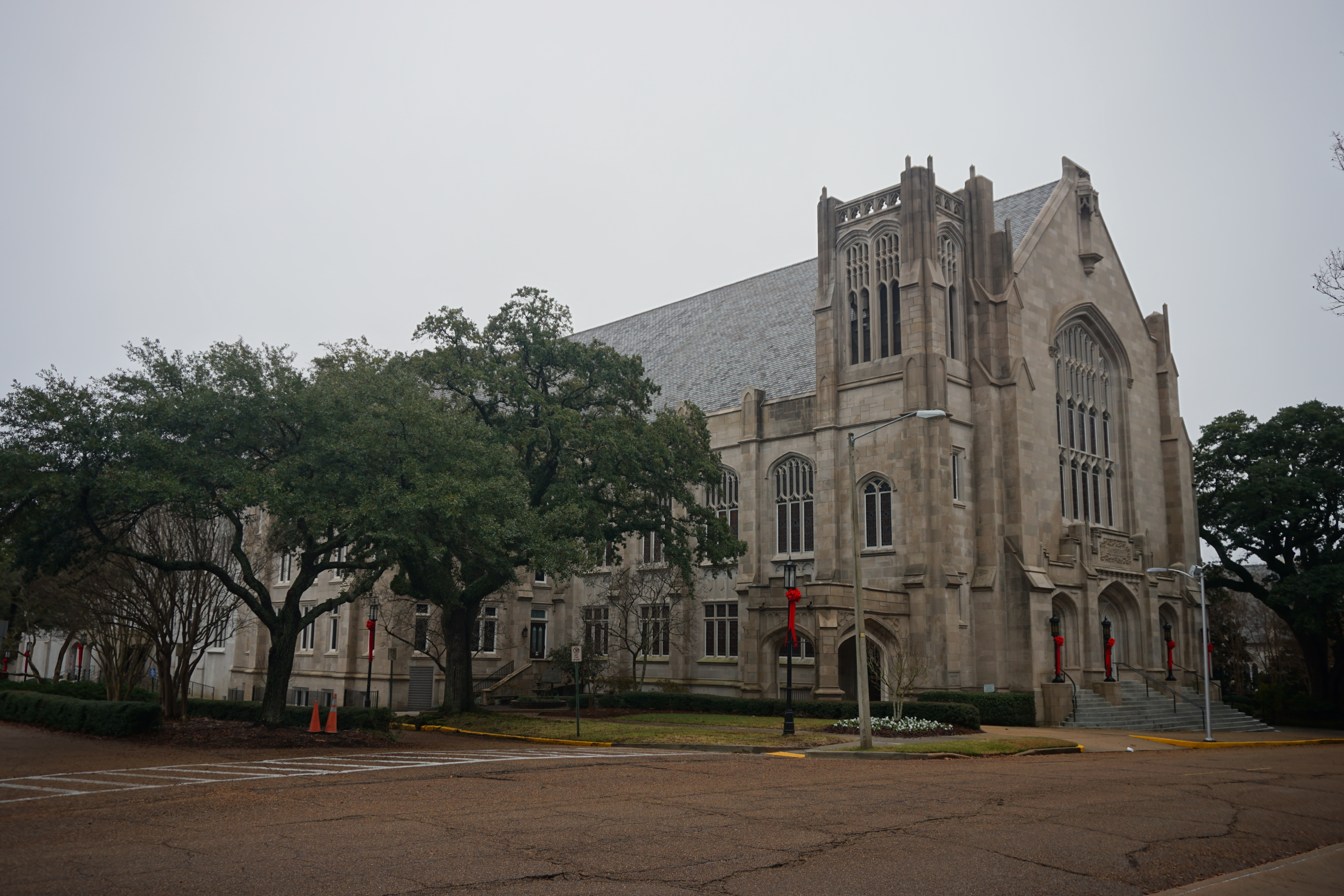 First Baptist Church in Jackson, Mississippi (United States).